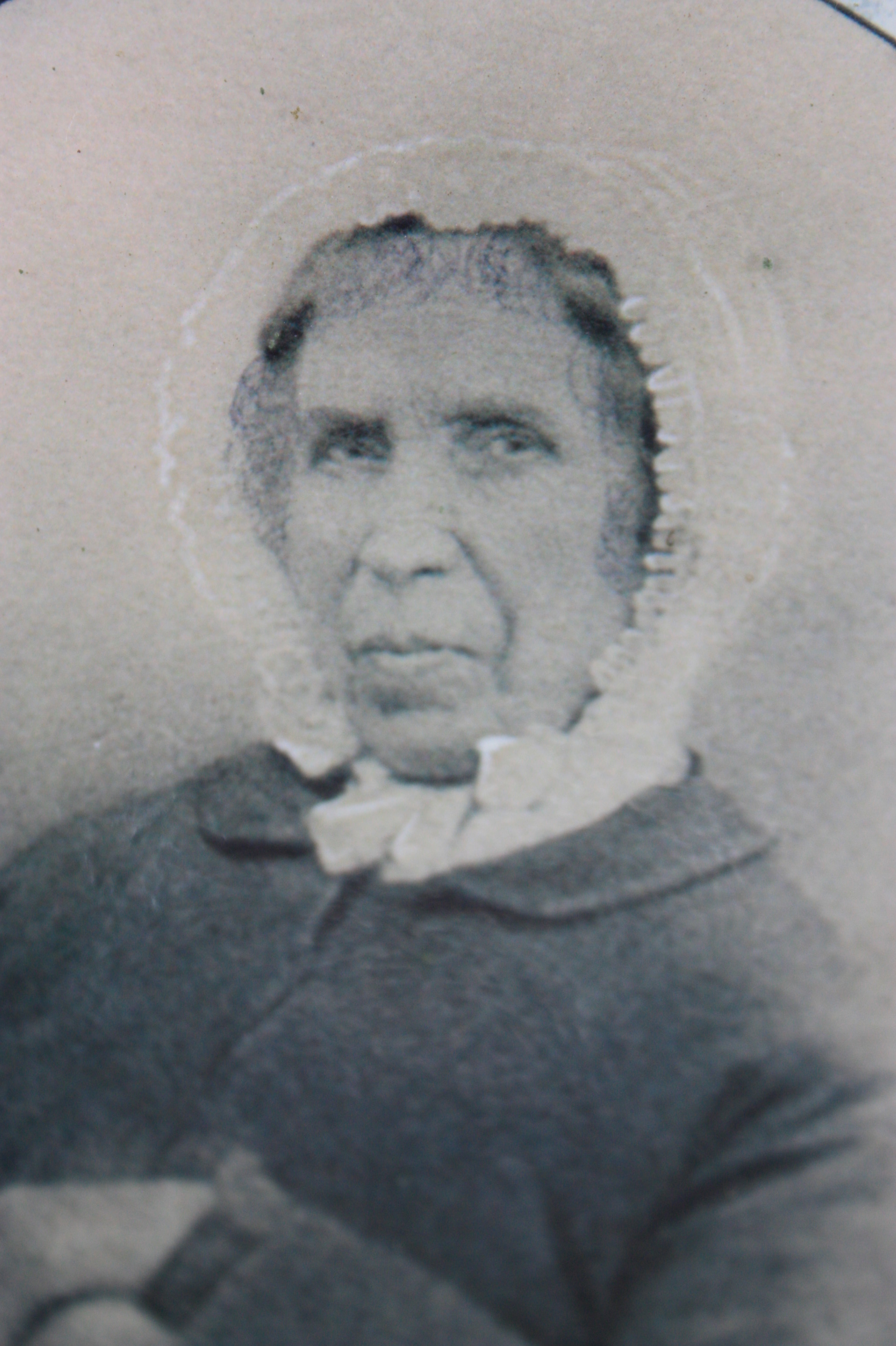 Tibbie Shiels - character postcard 1875